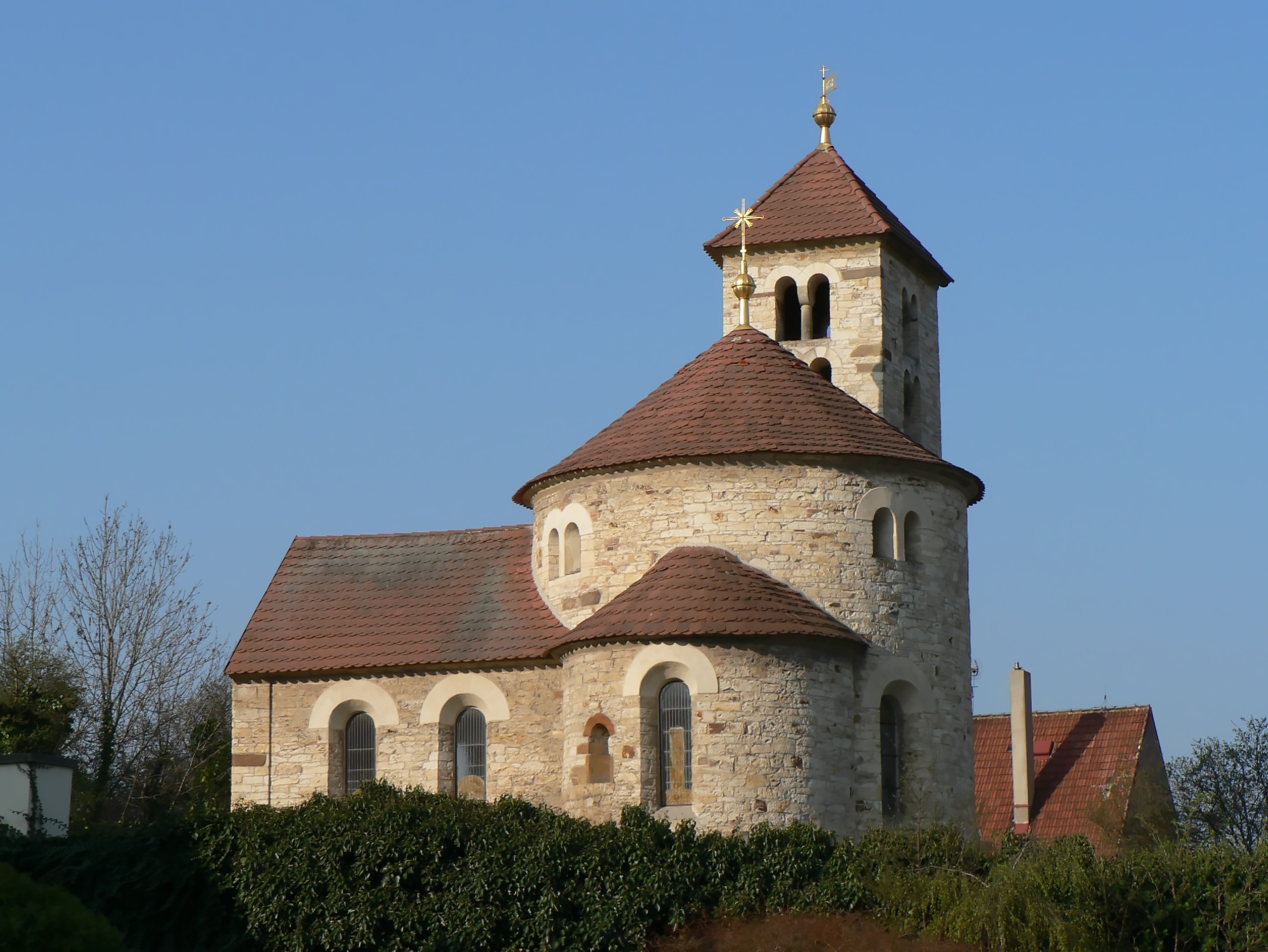 Romanesque rotunda in Predni Kopanina, built in early 12th century. The example of this specific Czech romanesque kind of architecture.